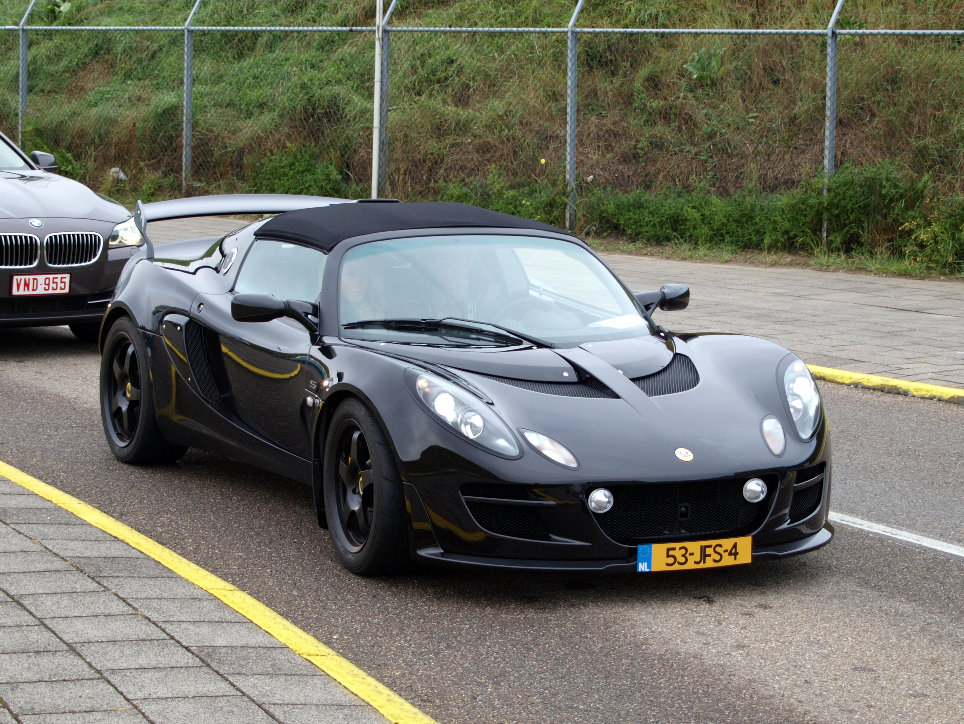 Photographed at the Nationaal Oldtimer Festival Zandvoort 2010, The Netherlands.